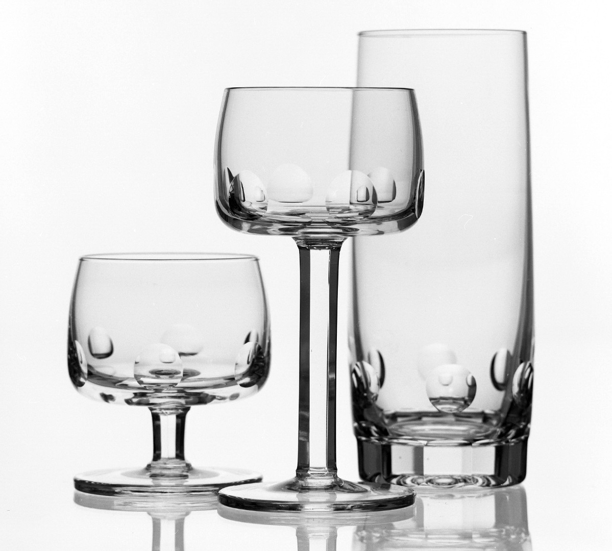 Set of glasses designed by Piet Zwart and produced in 1928-29 by N.V. Kristalunie in Maastricht, Netherlands. Collection: Nationaal Glasmuseum, Leerdam, ref. nr. 1568-a.